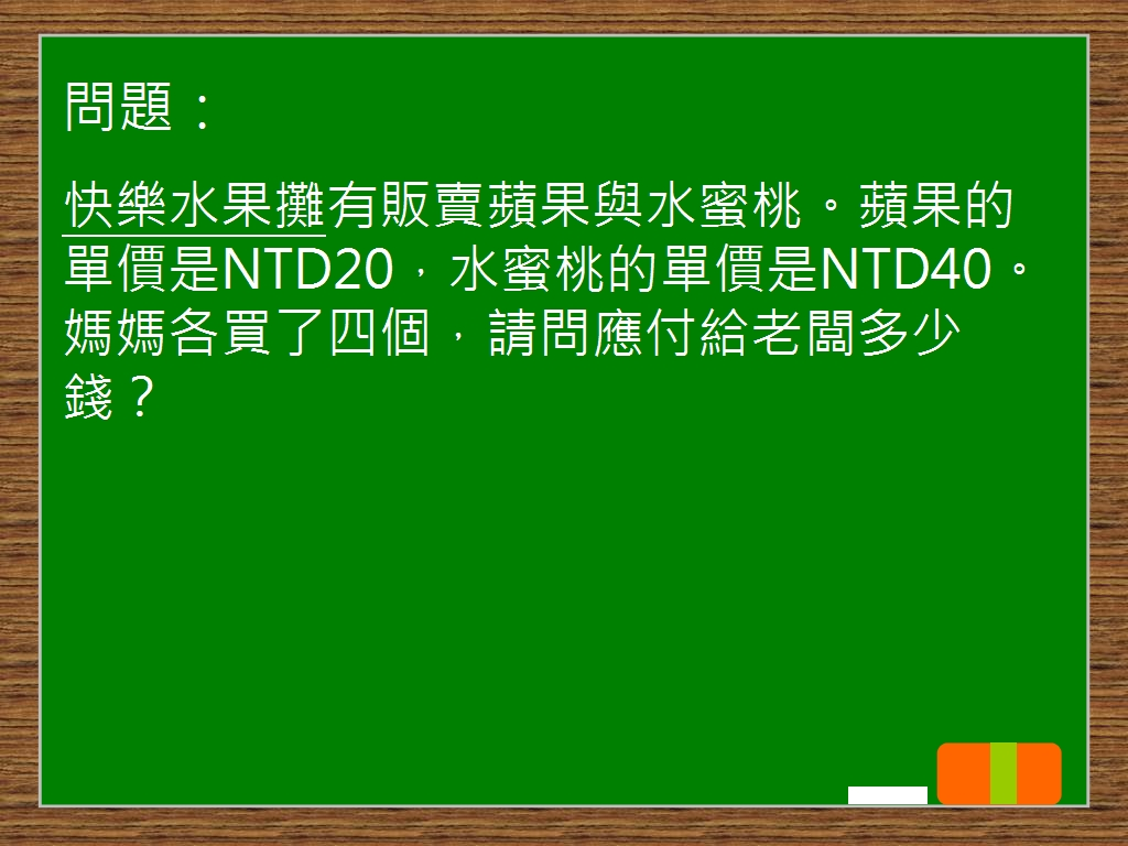 Screenshot simulation from the TV show Are You Smarter Than The Primary School Students? Taiwanese version.